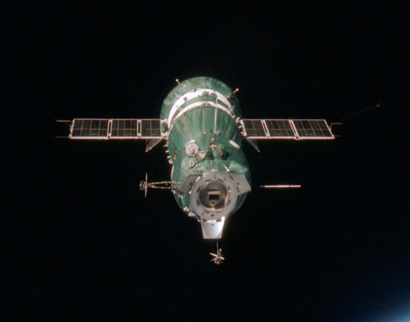 Apollo Soyuz Test Project ASTP, Soyuz-19, Docking End, Range = 23 Meters. Image taken on Revolution 57. Greenwich Mean Time GMT of Photo 200:12:31, Ground Elapsed Time GET 88:41. Altitude 222 km. Original Film Magazine: CX-11, Laboratory Roll 9; Camera Data: Hasselblad Reflex,70-mm, Module 500EL, NASA Modified; Film Data: 70-mm Ektachrome EF,Type QX-807, ASA=64 Laboratory Adjusted, 50mm Lens